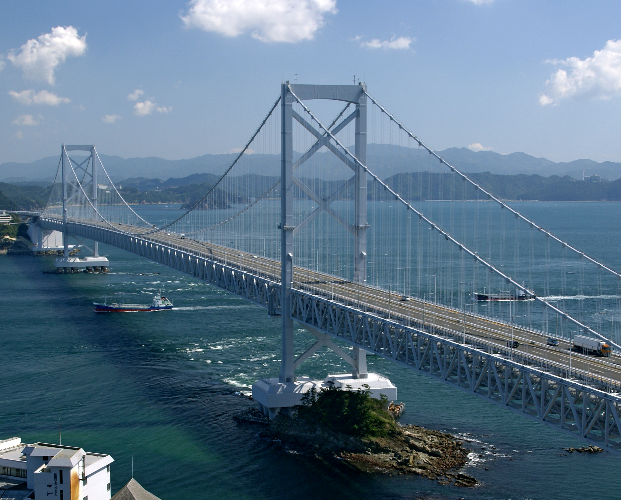 Big Naruto Bridge at Naruto, Tokushima prefecture, Japan